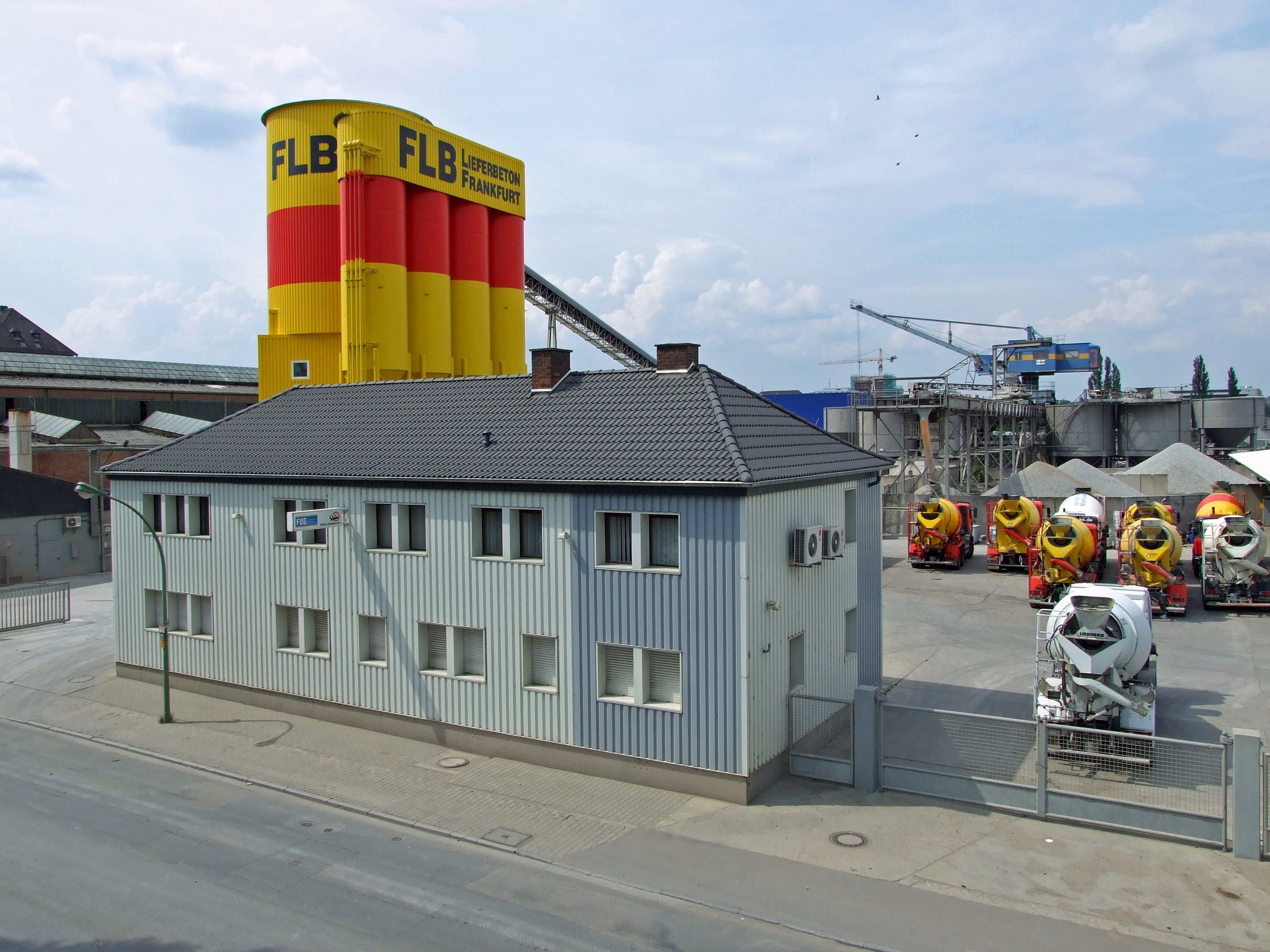 Concrete plant at Osthafen in Frankfurt am Main Ostend